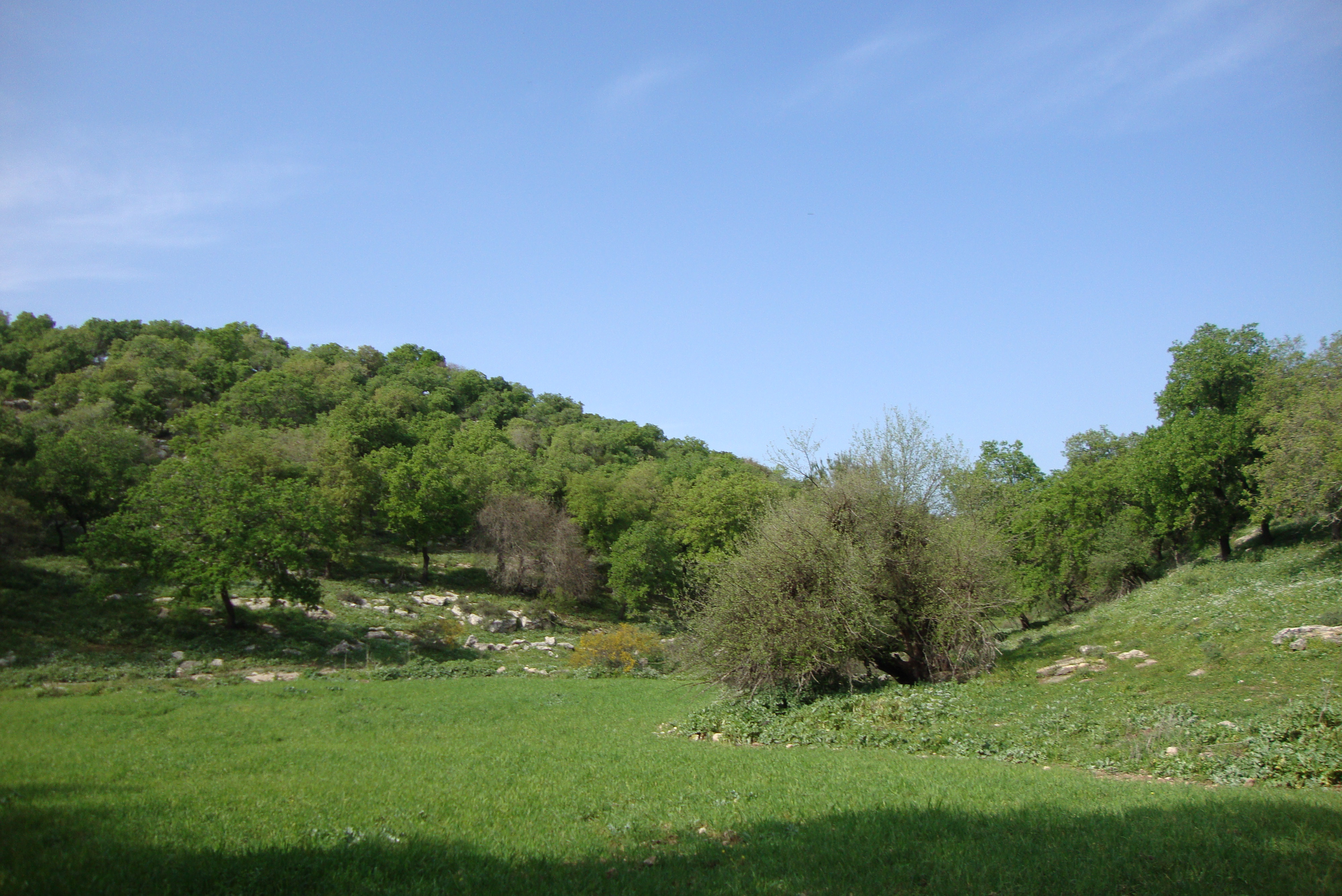 Geography of Israel